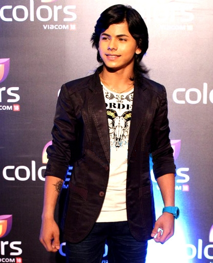 Siddharth Nigam at Colors TV's annual bash